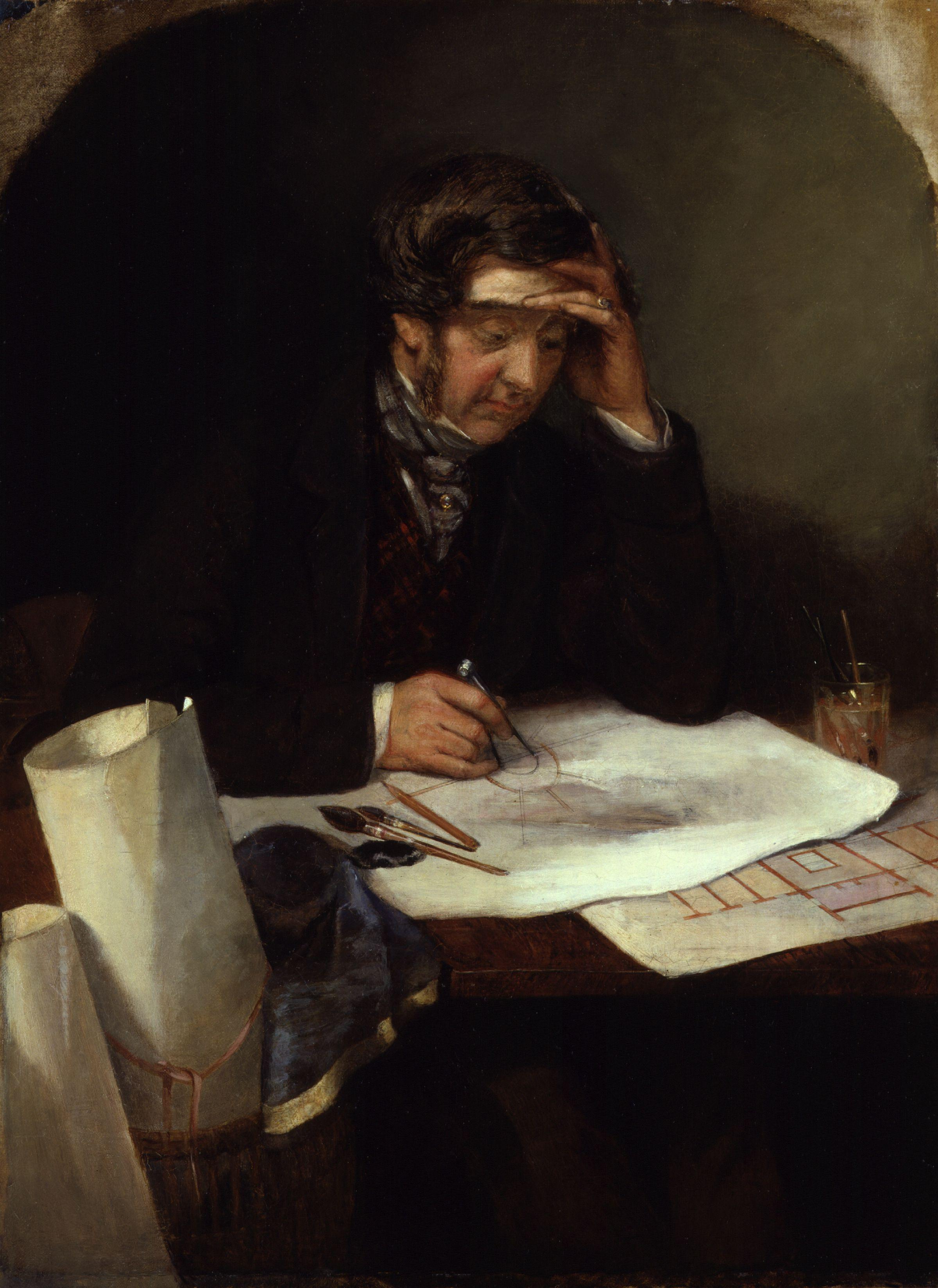 Thomas Henry Wyatt, by George Landseer (died 1883). Architect. All images in this batch have been confirmed as author died before 1939 according to the official death date listed by the NPG.